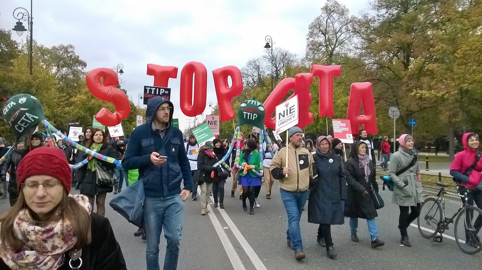 Stop CETA, protest in Warsaw, 15 October 2016